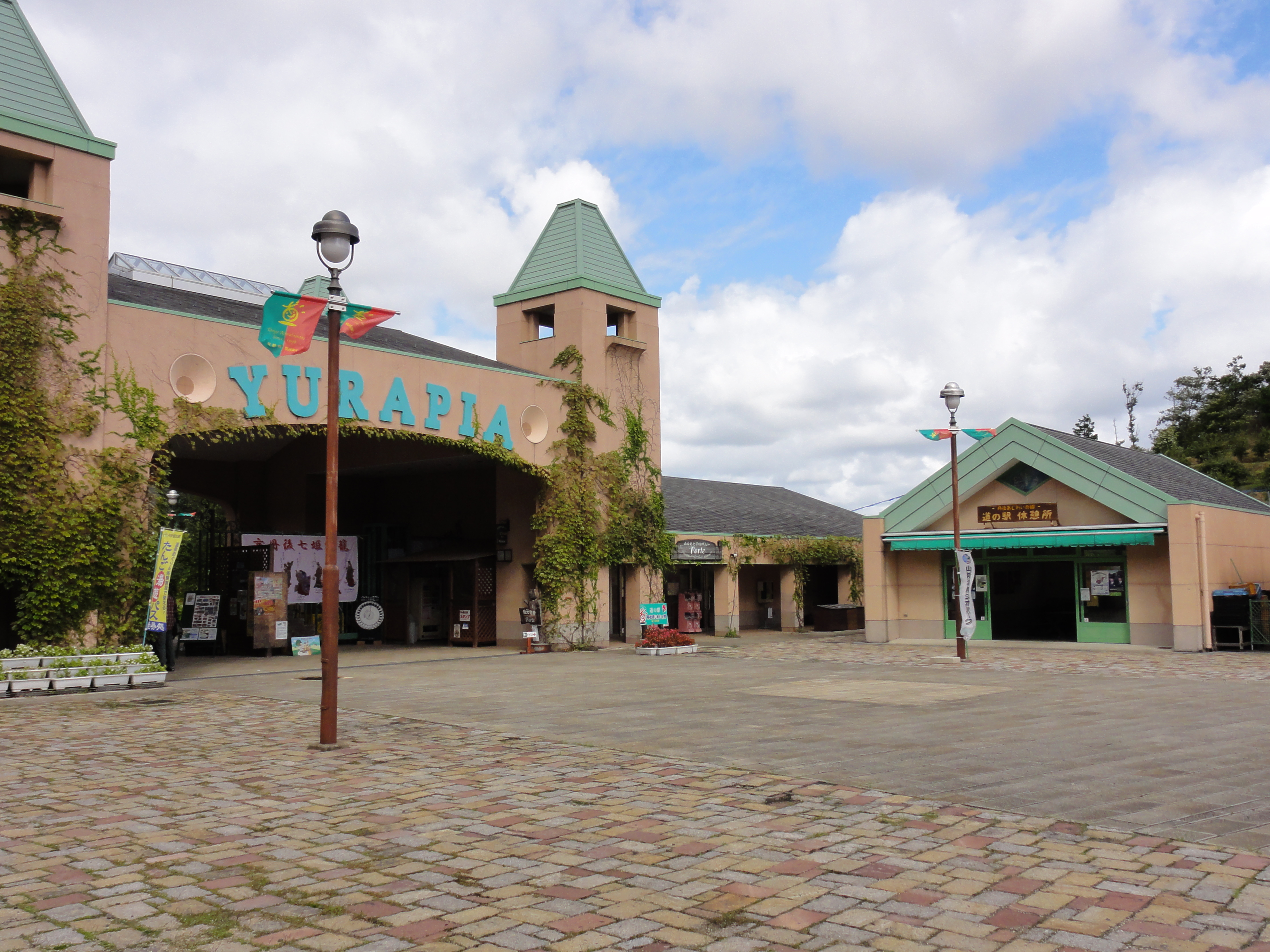 Roadsaide station Tango-Aziwai no sato,Kyoto Pref., Japan